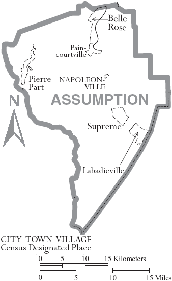 Map of Assumption Parish, Louisiana, United States with municipal boundaries